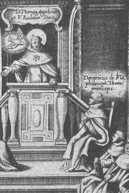 Dominicus de Flandria, portrayed in a 1621 printing of his Metaphysics commentary